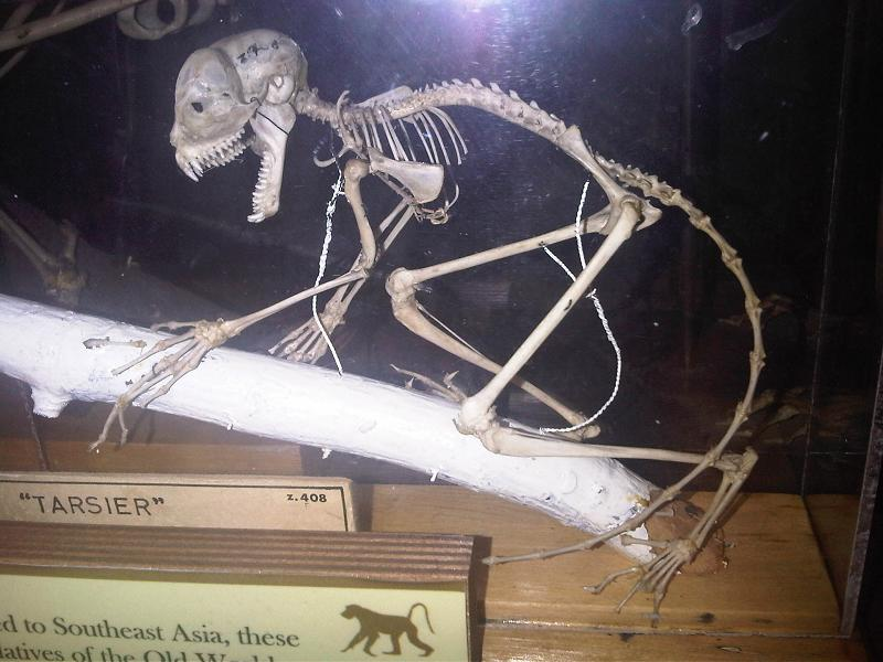 Spectral tarsier (Tarsius tarsier) skeleton in Grant Museum of Zoology, London, England.